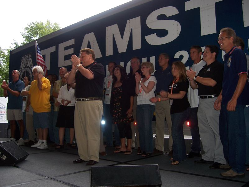 The Teamsters labor union gathering at YearlyKos 2007